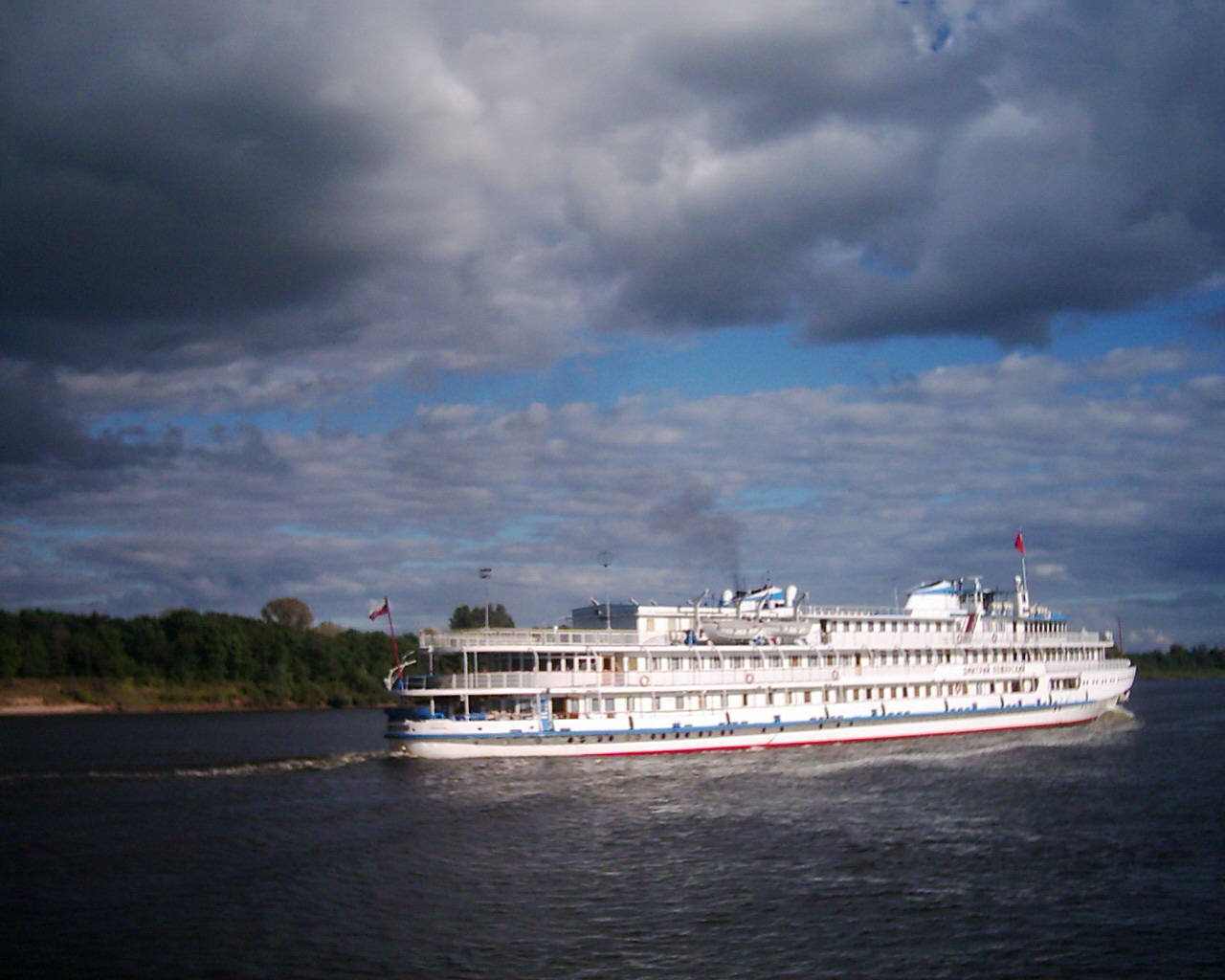 Volga River in Nizhny Novgorod